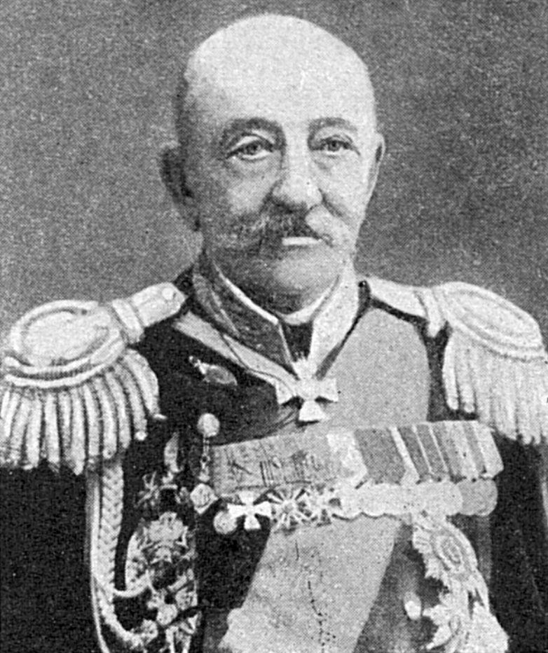 Komarov, Konstanti Vissarionovich